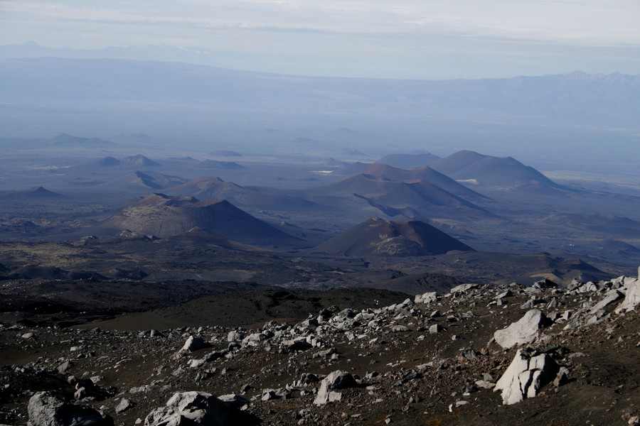 Толбачинский Дол